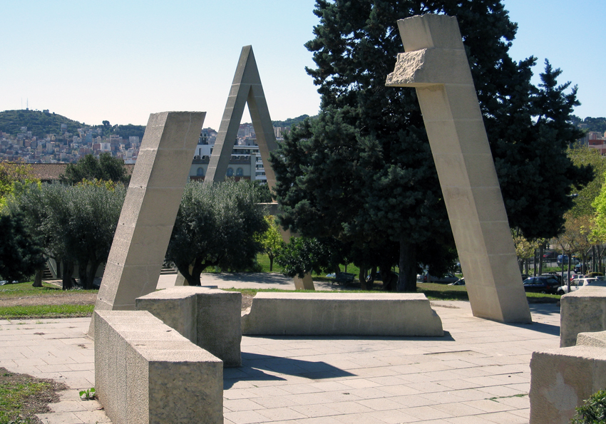 Poema visual transitable en tres temps (“Walkable visual poem in three phases”) - in the foreground is the 3rd phase: 3. Destrucció (“3. Destruction”), 1984, sculpture by Joan Brossa next to the Horta Velodrome and Labyrinth in Barcelona, Catalonia (Spain).